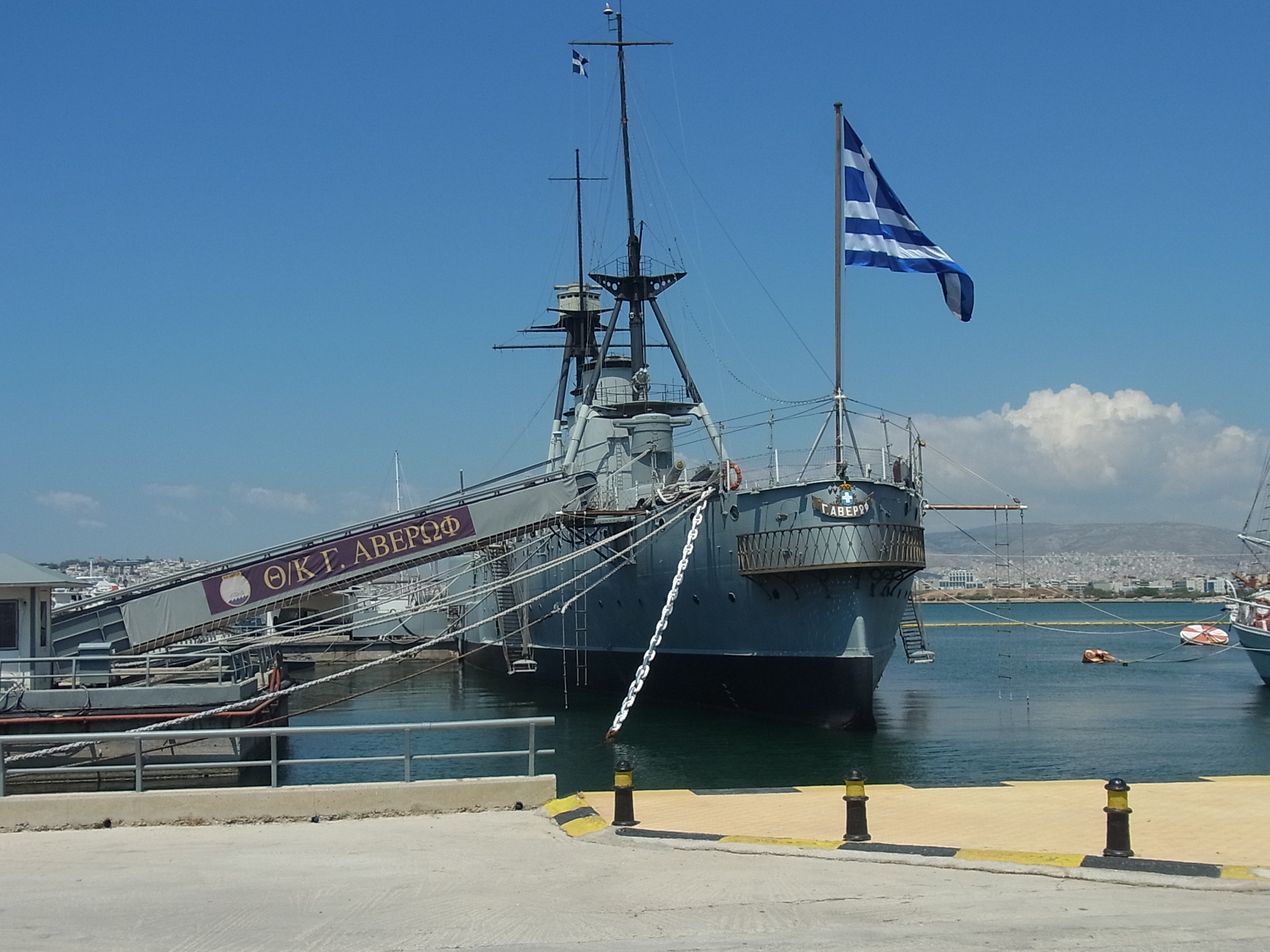 Georgios Averof viewed from astern